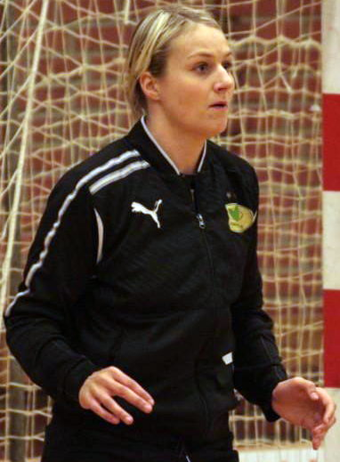 Louise Bager Due, Danish handball goalkeeper, during a 2008/09 Danish Championship play off match between KIF Vejen and Viborg HK. The picture was taken on 25 April 2009.